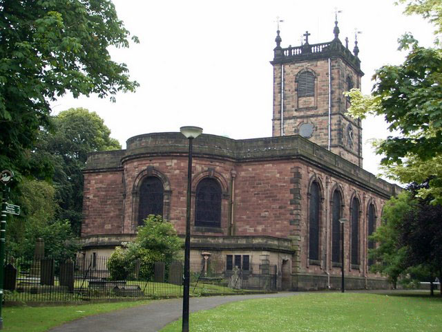 St Modwen's parish church, Burton on Trent, Staffordshire, seen from the east